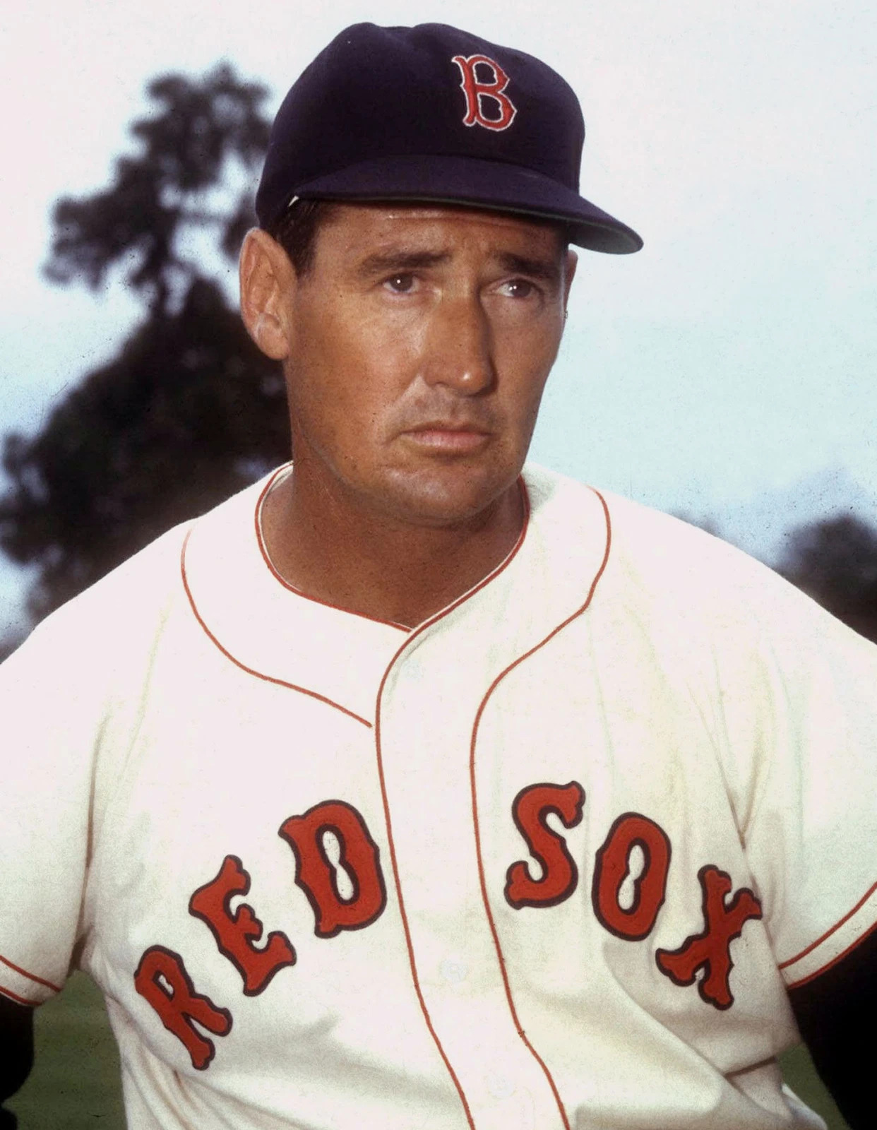 Ted Williams in the Boston Red Sox Hall of Fame at Fenway Park, Boston